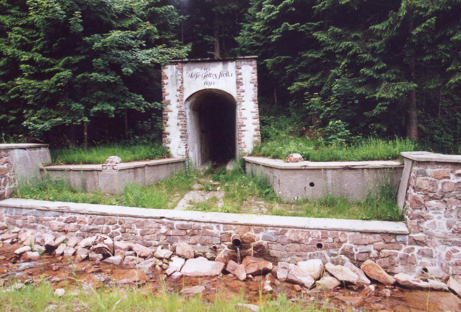 Adit mouth of the “Hilfe-Gottes-Stolln” (lit.: so help us god adit) in Zinnwald-Georgenfeld, Saxony, Germany.